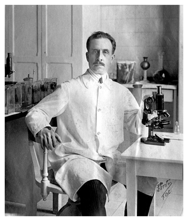 Carlos Chagas (b July 9, 1879 d Nov 8, 1934) From 1906 to 1909, Dr. Chagas discovered and described completely a new infectious disease: its pathogen (Trypanosoma cruzi), vector (Triatominae), host, clinical manifestations and epidemiology (Chagas disease). Dr. Chagas was also the first to discover and illustrate the parasitic fungal genus Pneumocystis. Here he is pictured with a Grosses Forschungsmikroskop I B built by Carl Zeiss, Jena. Images donated as part of a GLAM collaboration with Carl Zeiss Microscopy - please contact Andy Mabbett for details.